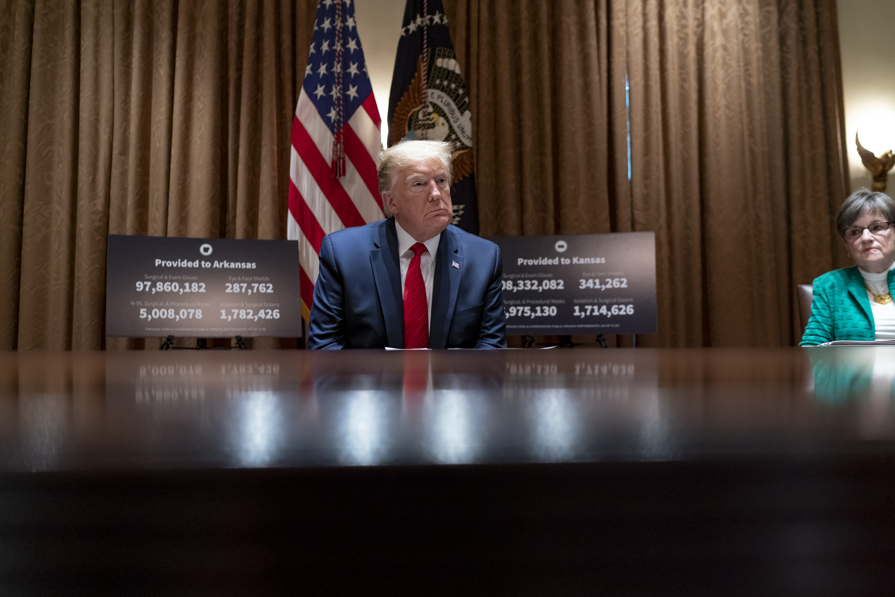 President Donald J. Trump meets with Arkansas Gov. Asa Hutchinson and Kansas Gov. Laura Kelly Wednesday, May 20, 2020, in the Cabinet Room of the White House. (Official White House Photo by Shealah Craighead)